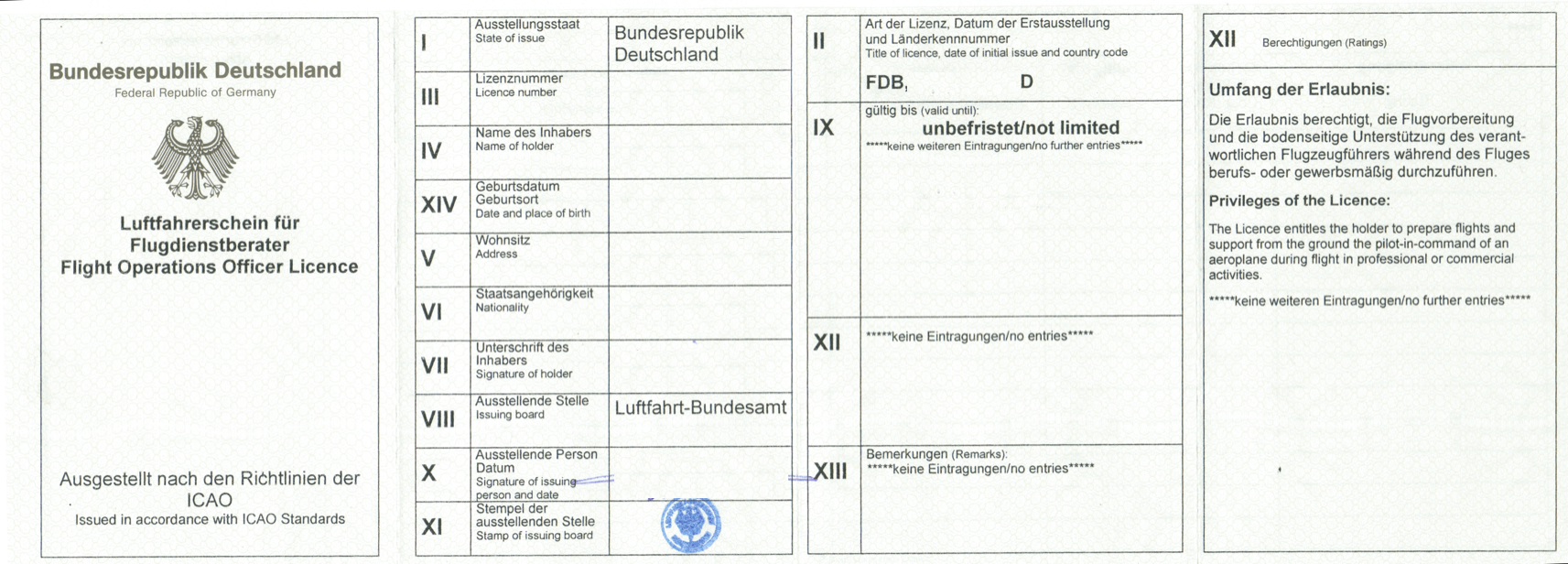 German Licence for Flight Operations Officers issued in accordance with ICAO Standards and in compliance with LuftPersV by Luftfahrtbundesamt Braunschweig/Germany